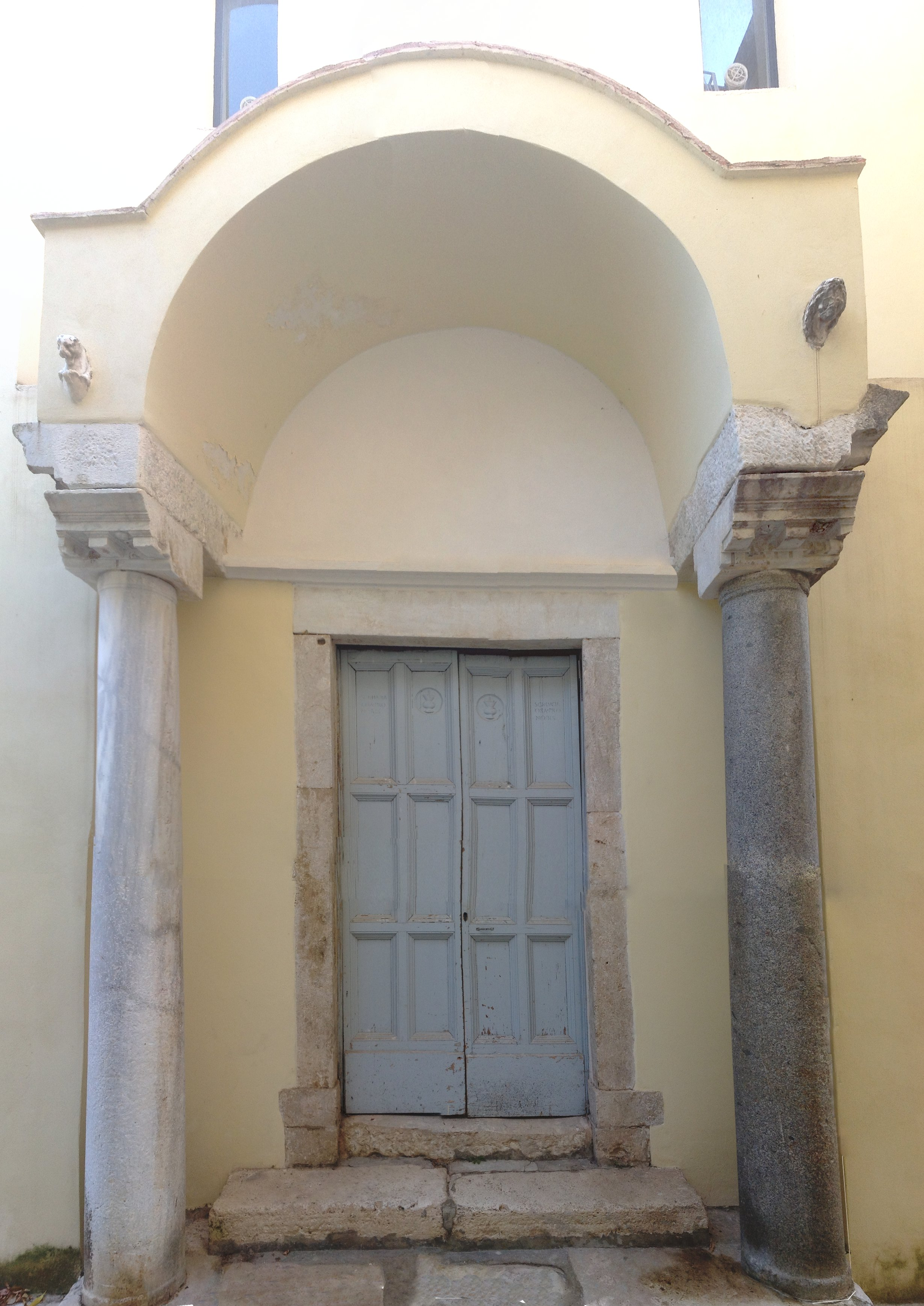 see filename This image was created with Hugin